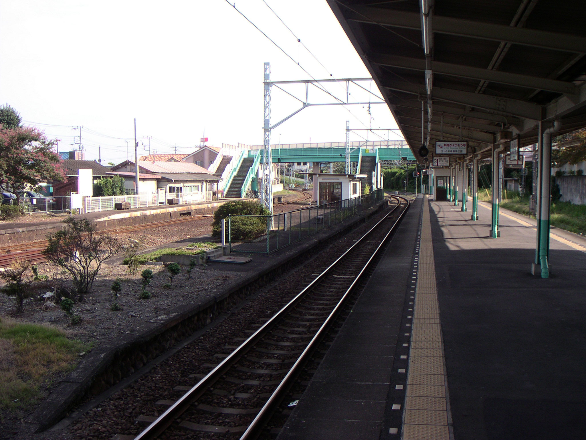 Aioi Station, Tōbu Railway and Watarase Keikoku Railway